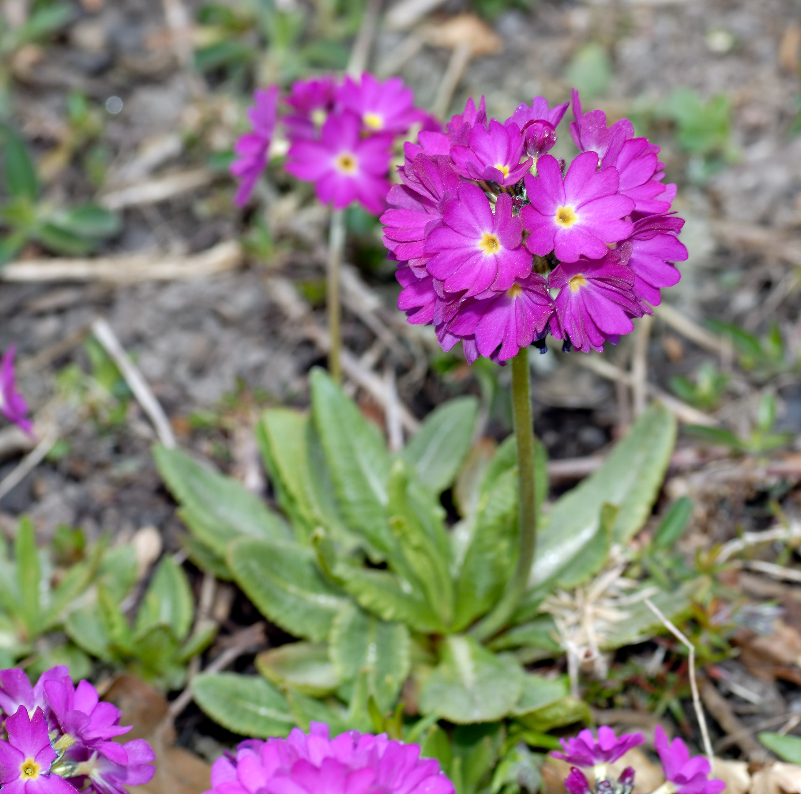 This image shows a Drumstick primula (Primula denticulata).